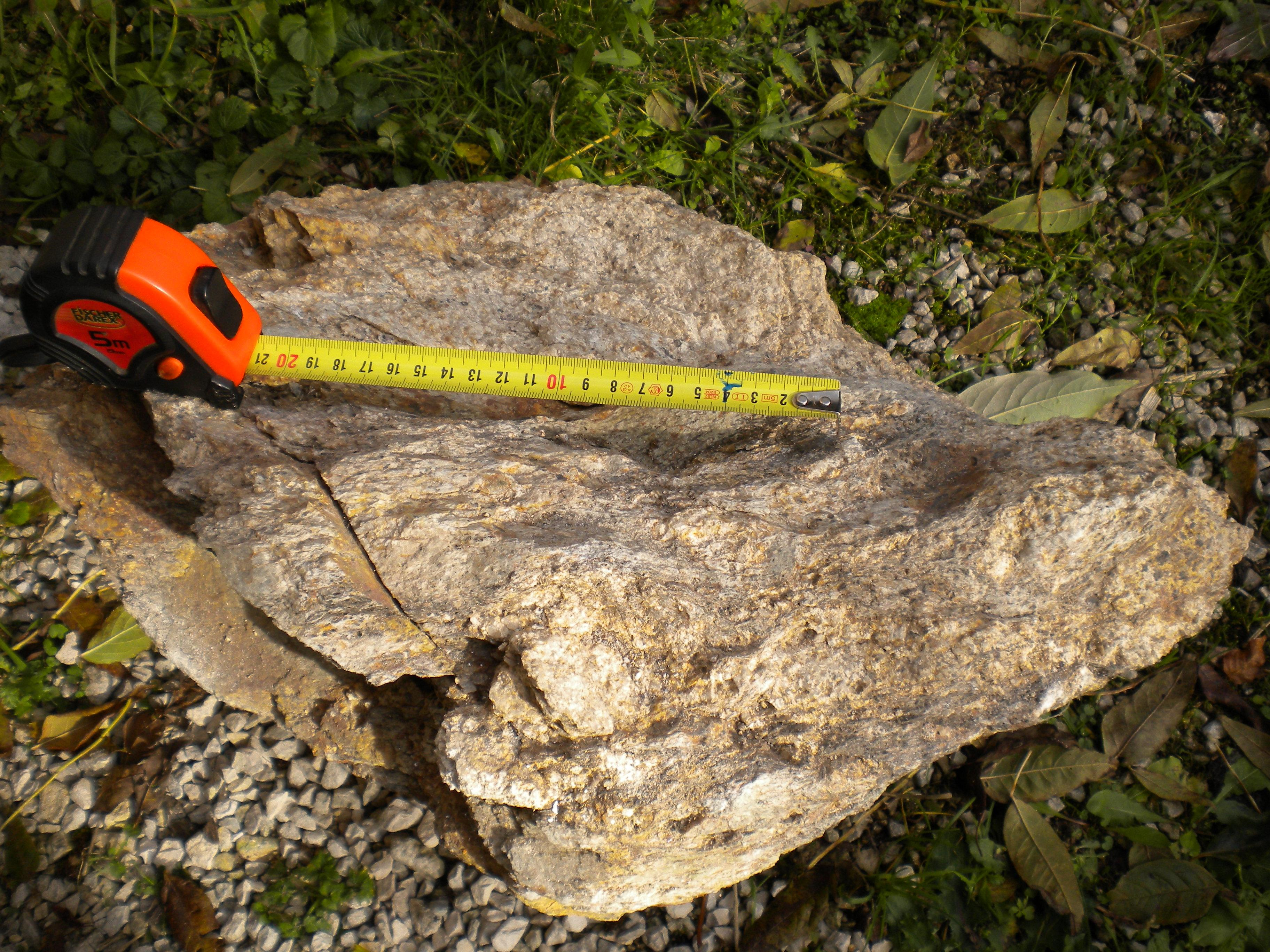 The Roussines leucogranite, Northwestern Massif Central, France. Below tape tectonic S/C fabric interleaving leucogranitic and paragneissic layers. Above tape a leucogranite pod.